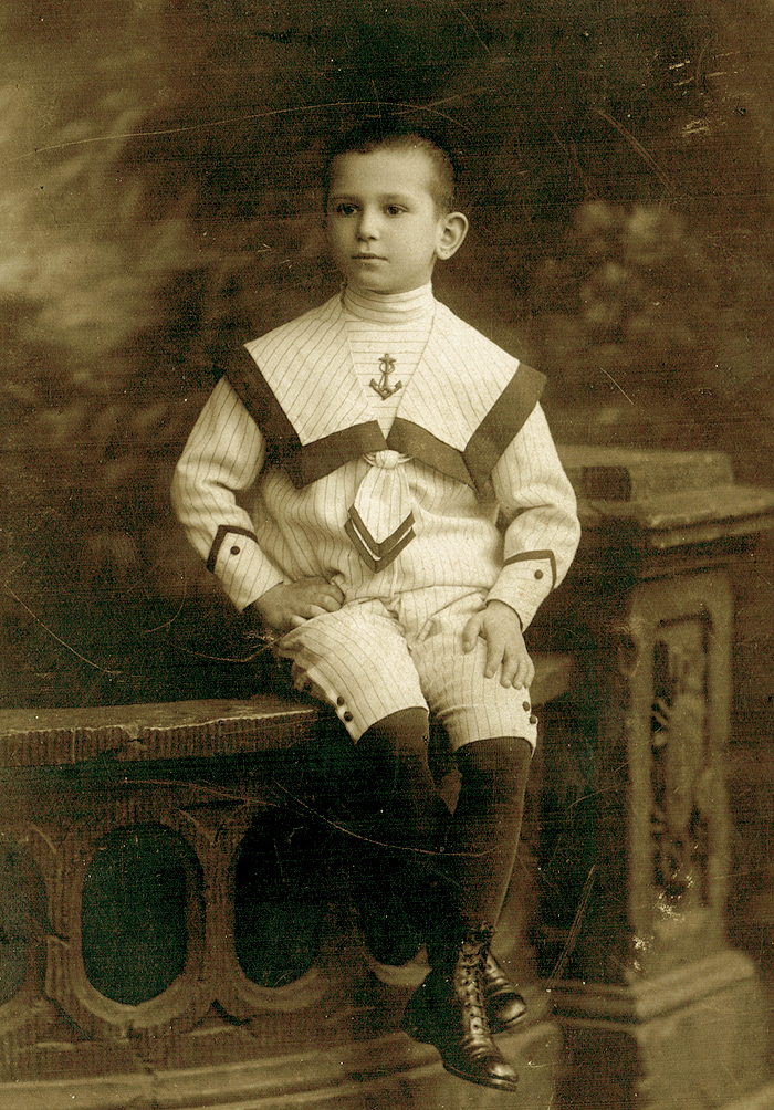 Borys (Boris) Barvinok in 1914